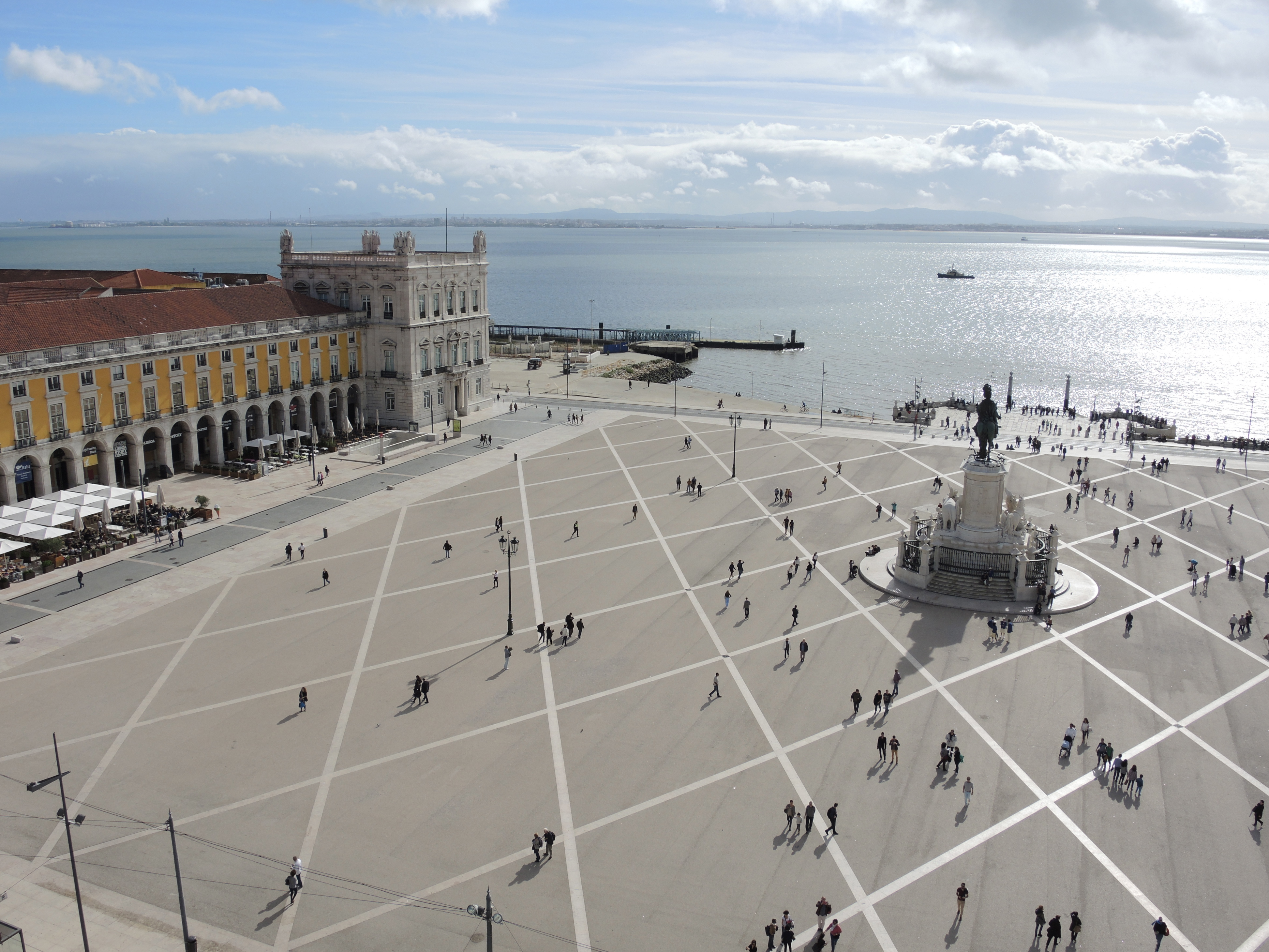 Praca do Comercio Lisbon